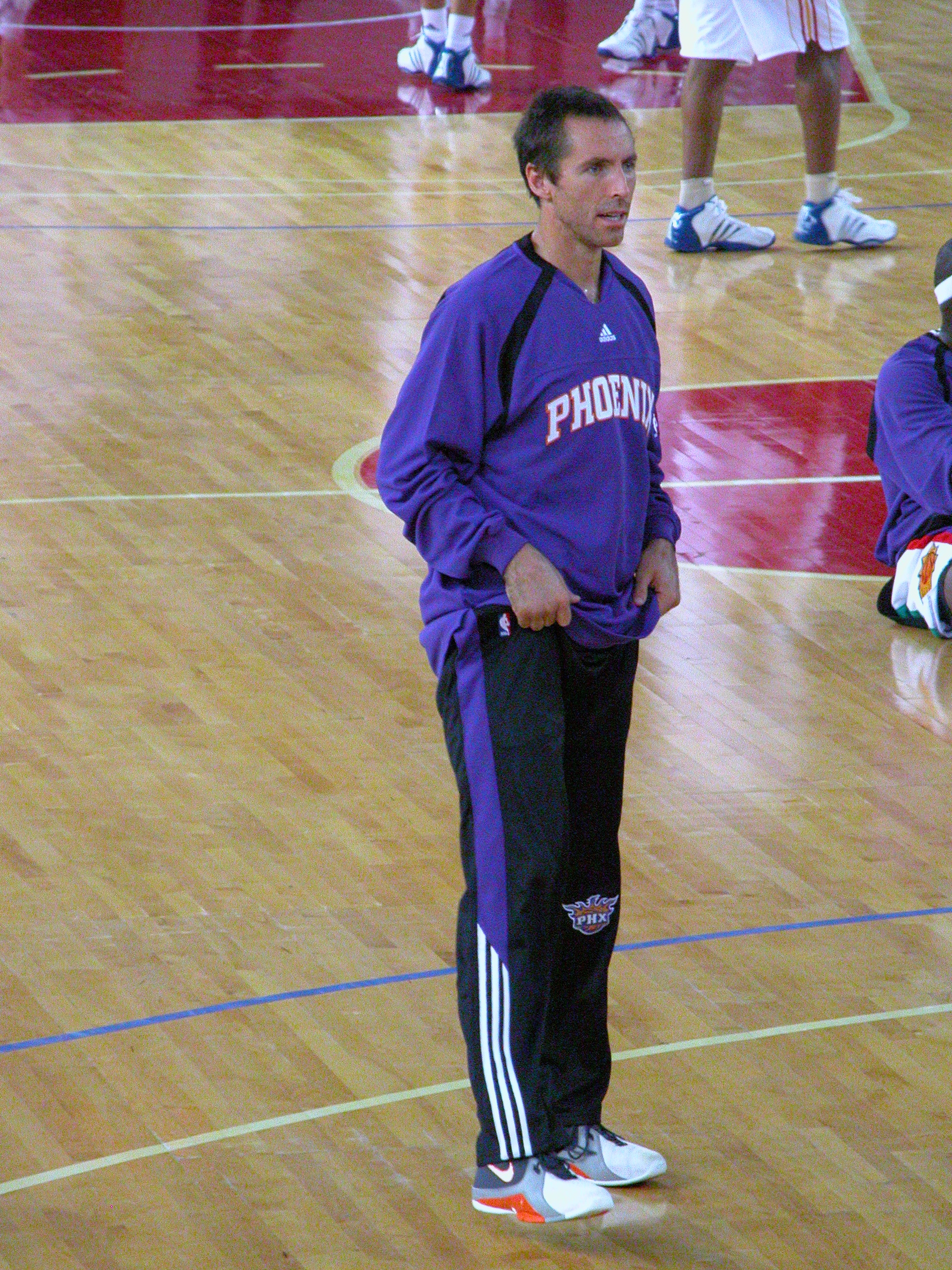 Canadian basketball player Steve Nash